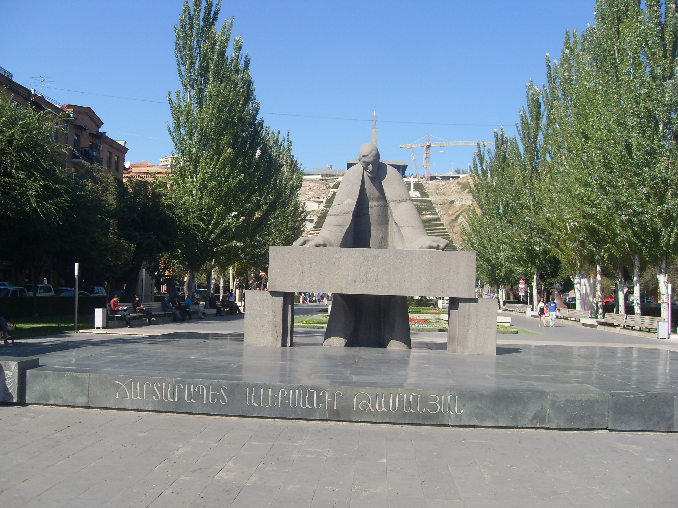 Monument of Alexander Tamanyan, Yerevan,1974, sculp. A. Hovsepyan, archit. S. Petrosyan 6/120